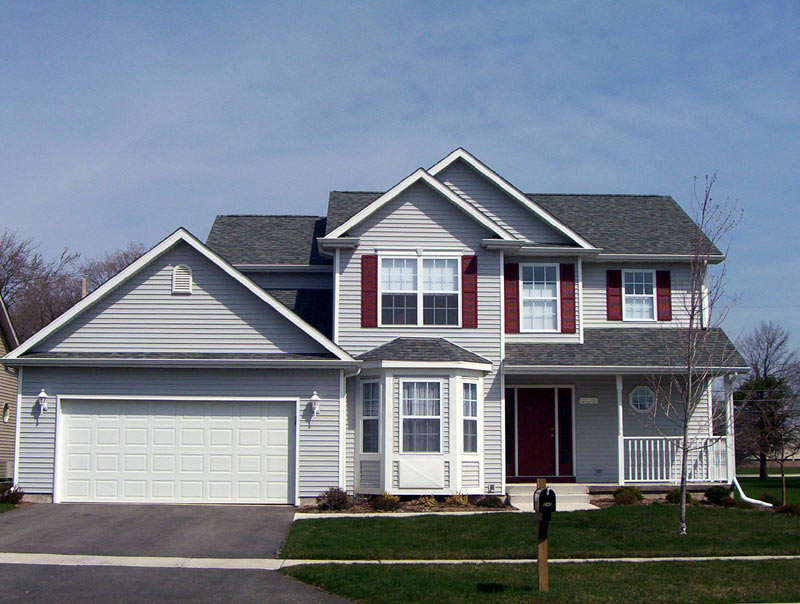 American Two-story single-family home